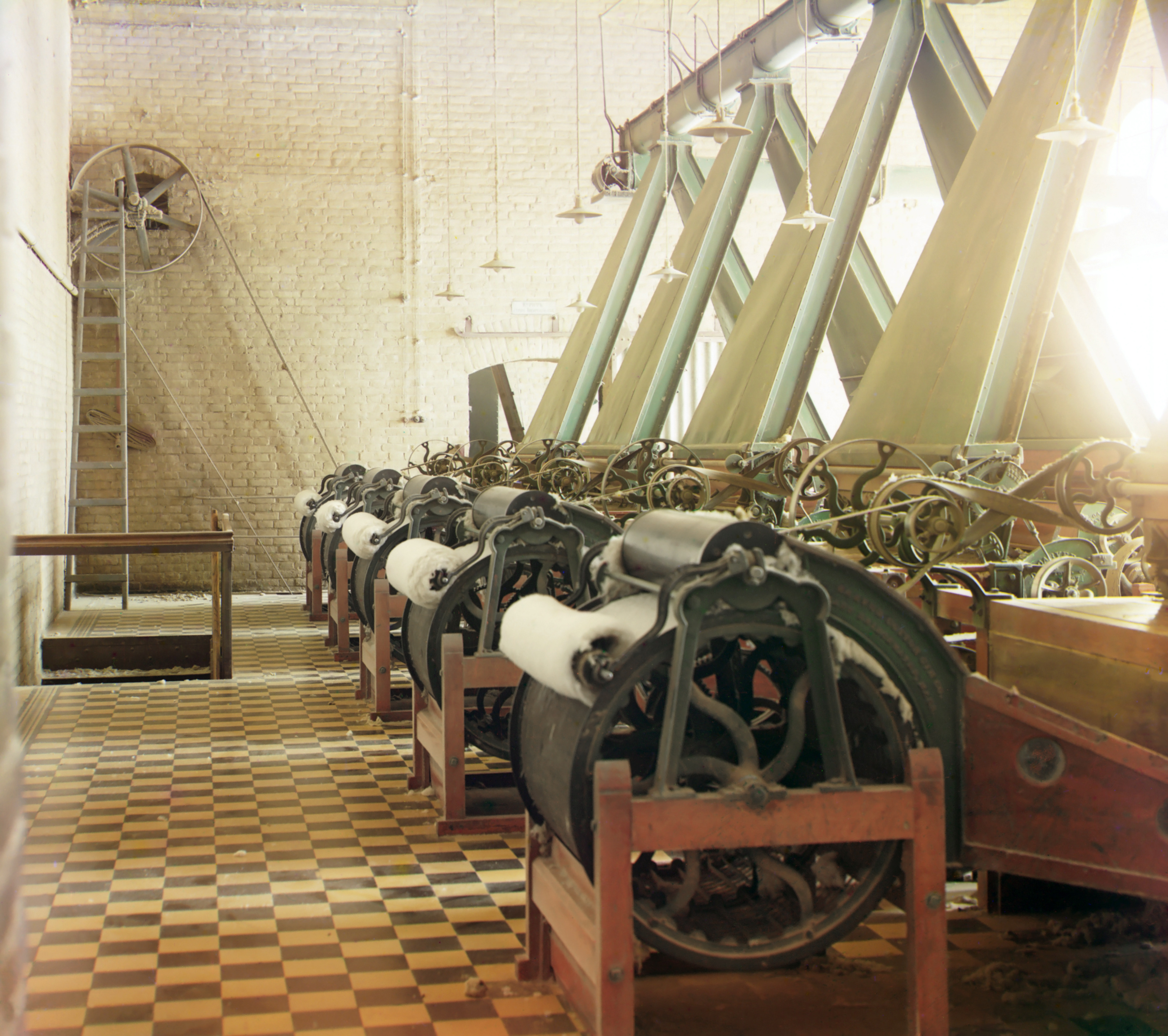 Original Description: Cotton textile mill interior with machines producing cotton thread, in Bayram-Ali (Bayramaly).